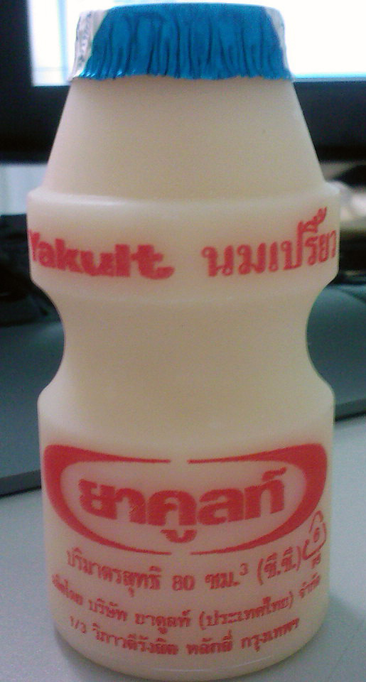 Yakult beverage as sold in Thailand